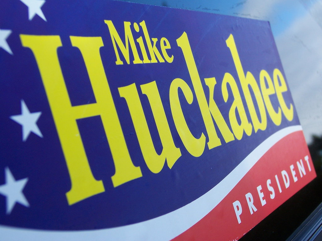 A Huckabee supporter's bumper sticker.